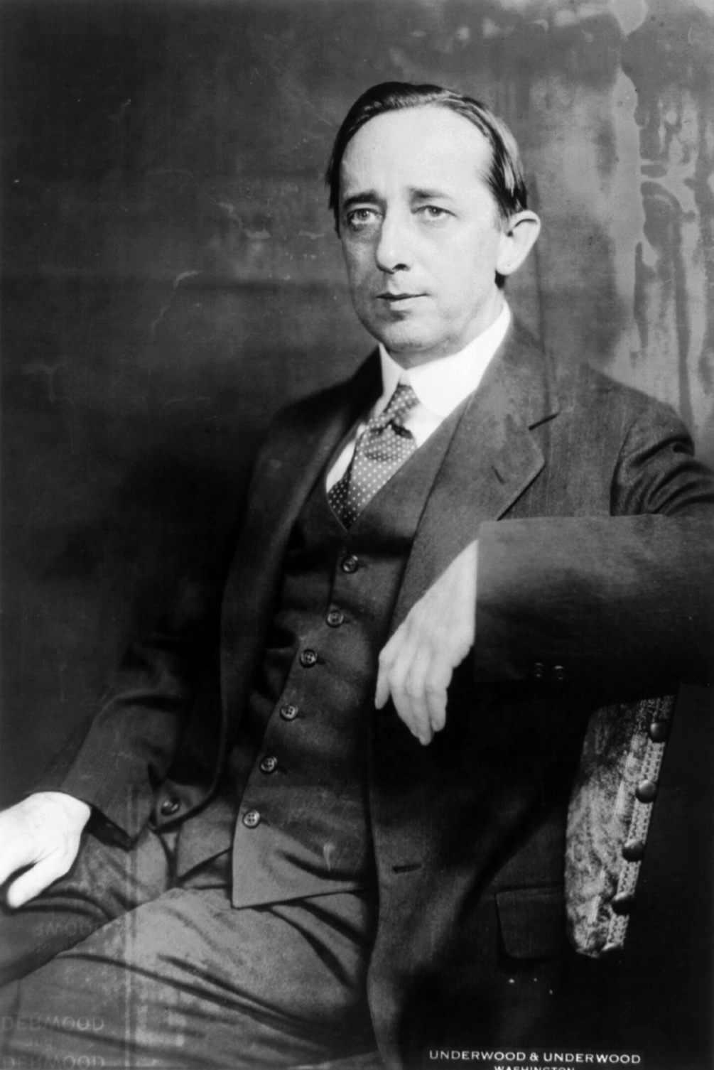 Claude Bowers, U.S. ambassador to Spain and Chile